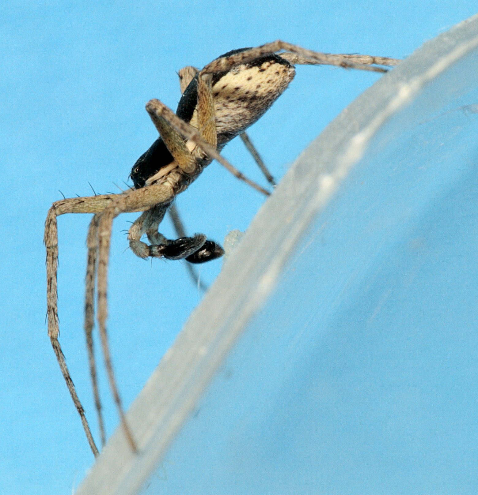 male Philodromus aureolus from Cologne, Germany.